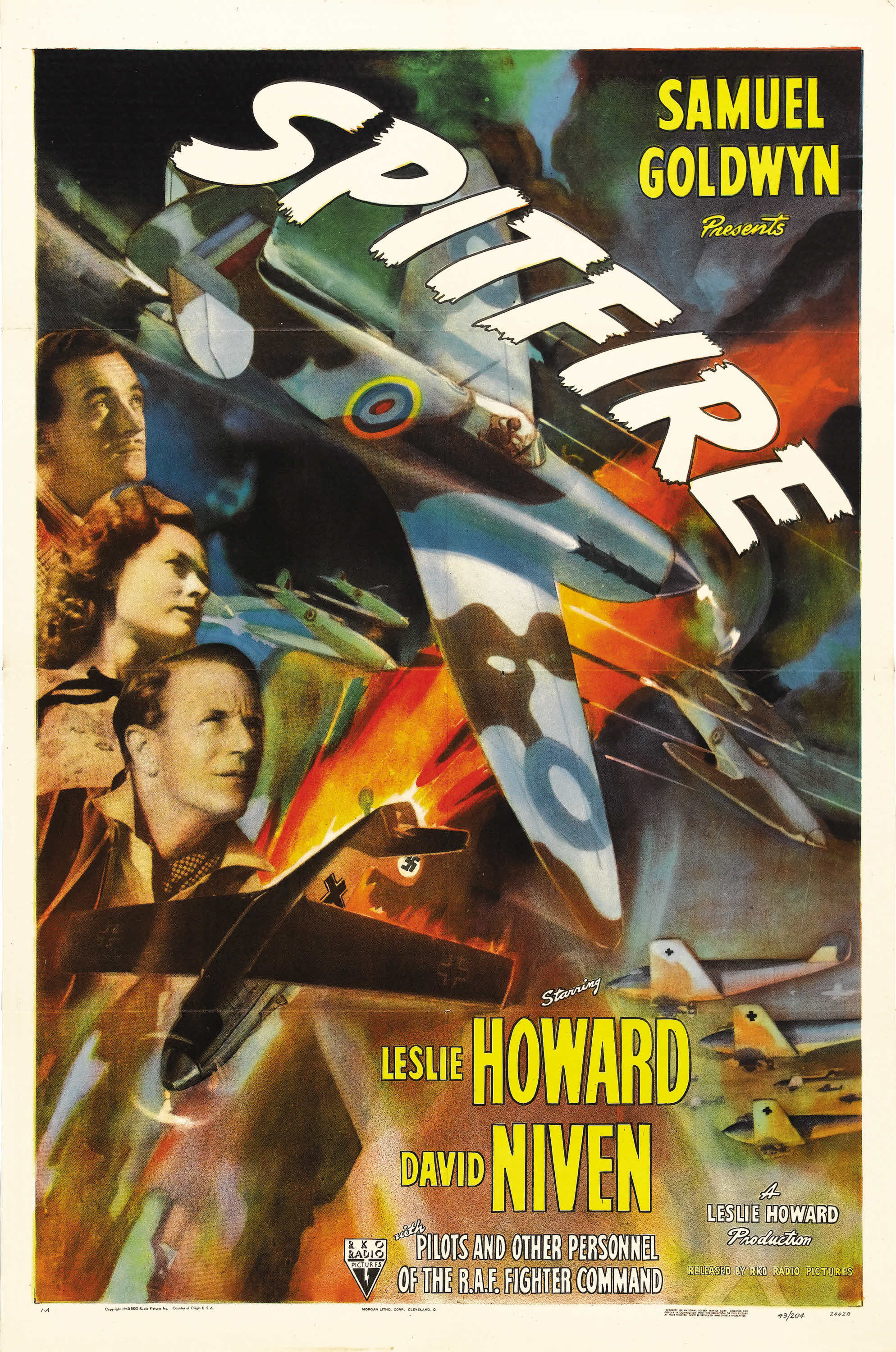 Poster for the film Spitfire, released in 1943 in the U.S.; re-edited from the 1942 British film, The First of the Few